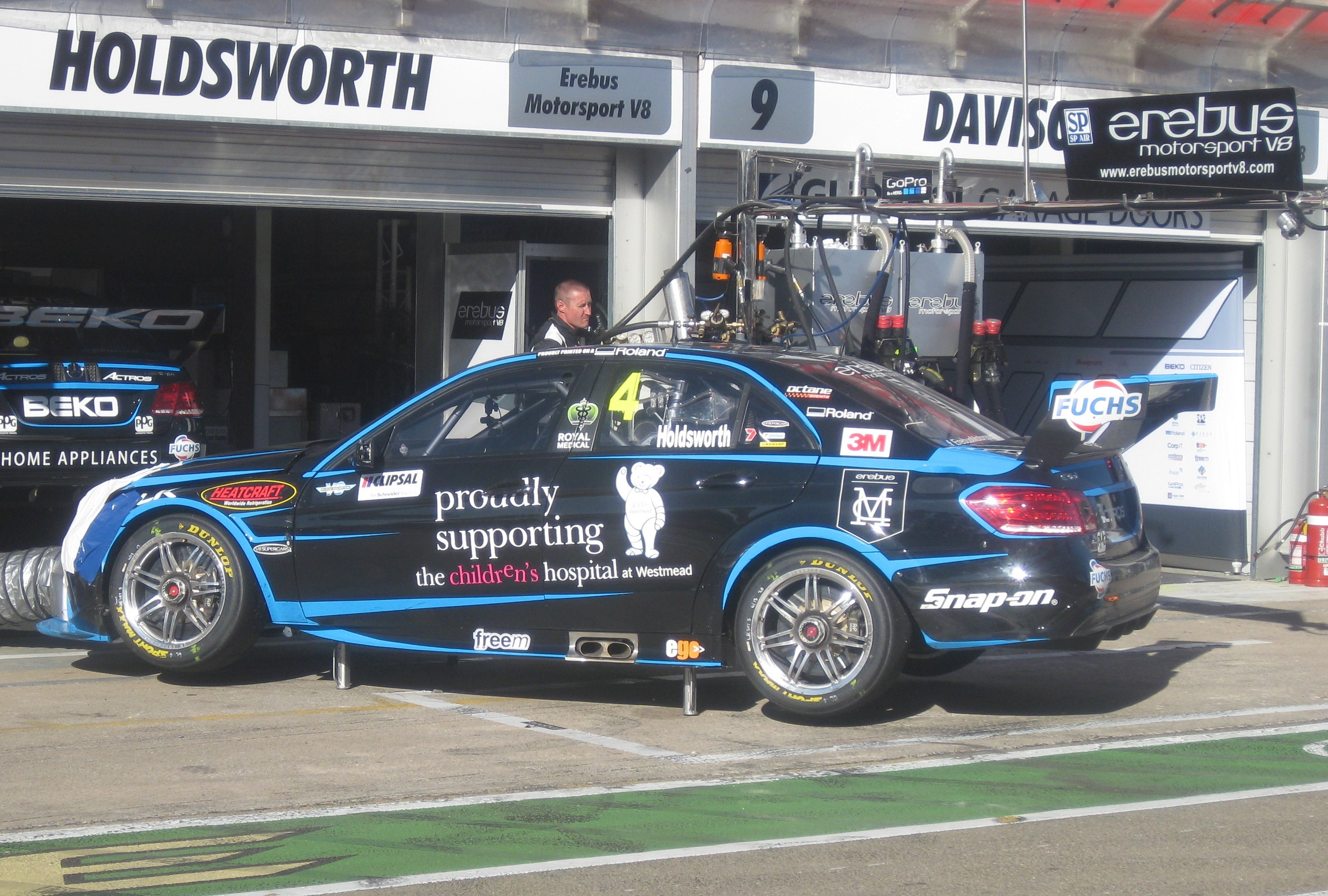 The Mercedes-Benz E63 AMG of Lee Holdsworth at the 2014 Clipsal 500 Adelaide. The car was entered by Erebus Motorsport